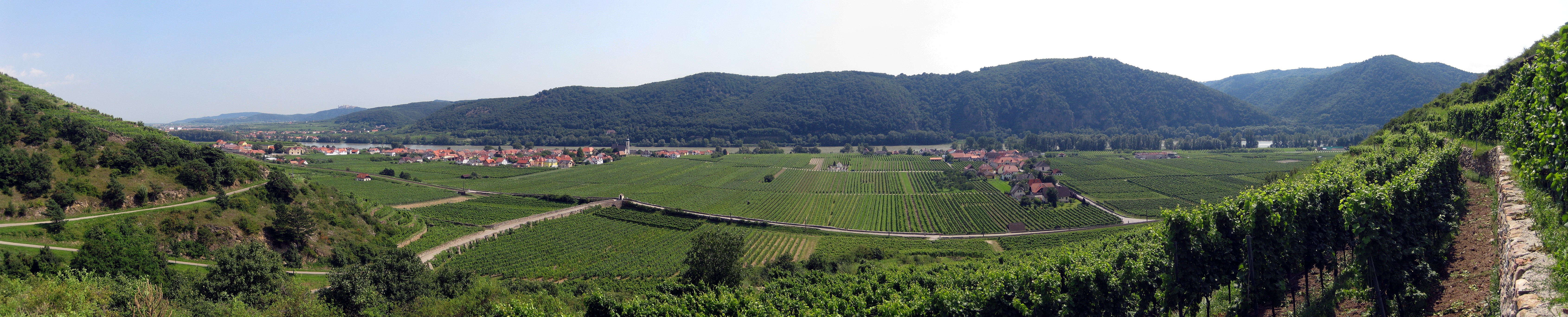 Panorama over Unterloiben (on the left) and Oberloiben in the Wachau Valley